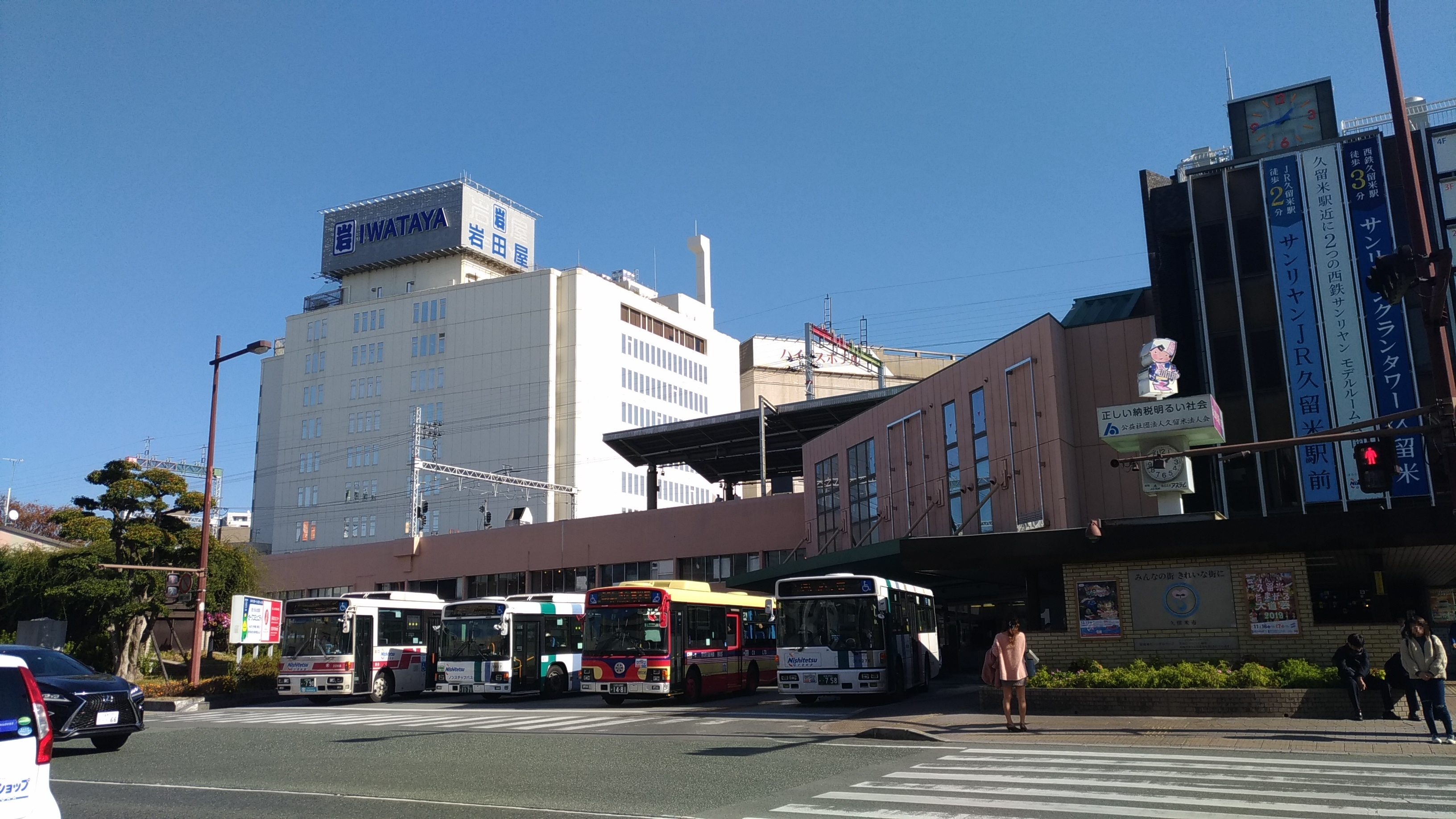 Nishitetsu Kurume Station Bus terminal, Kurume city, Fukuoka pref.